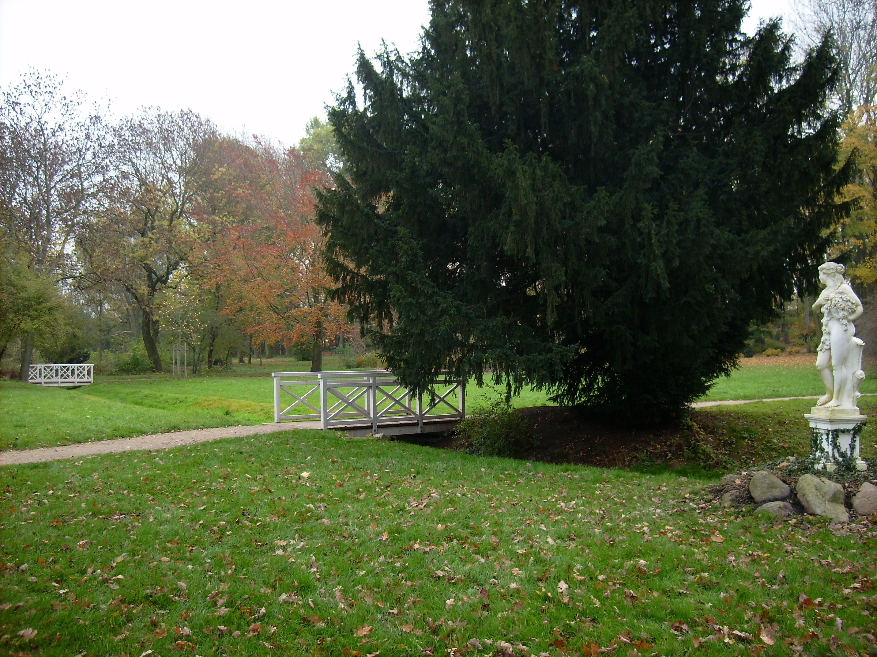 In the gardens of Dieskau Castle (Kabelsketal, district of Saalekreis, Saxony-Anhalt)